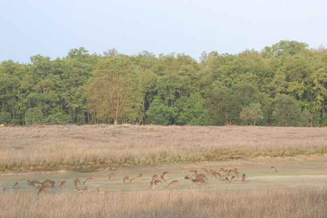 Road to Achankmar. Baiga Baba